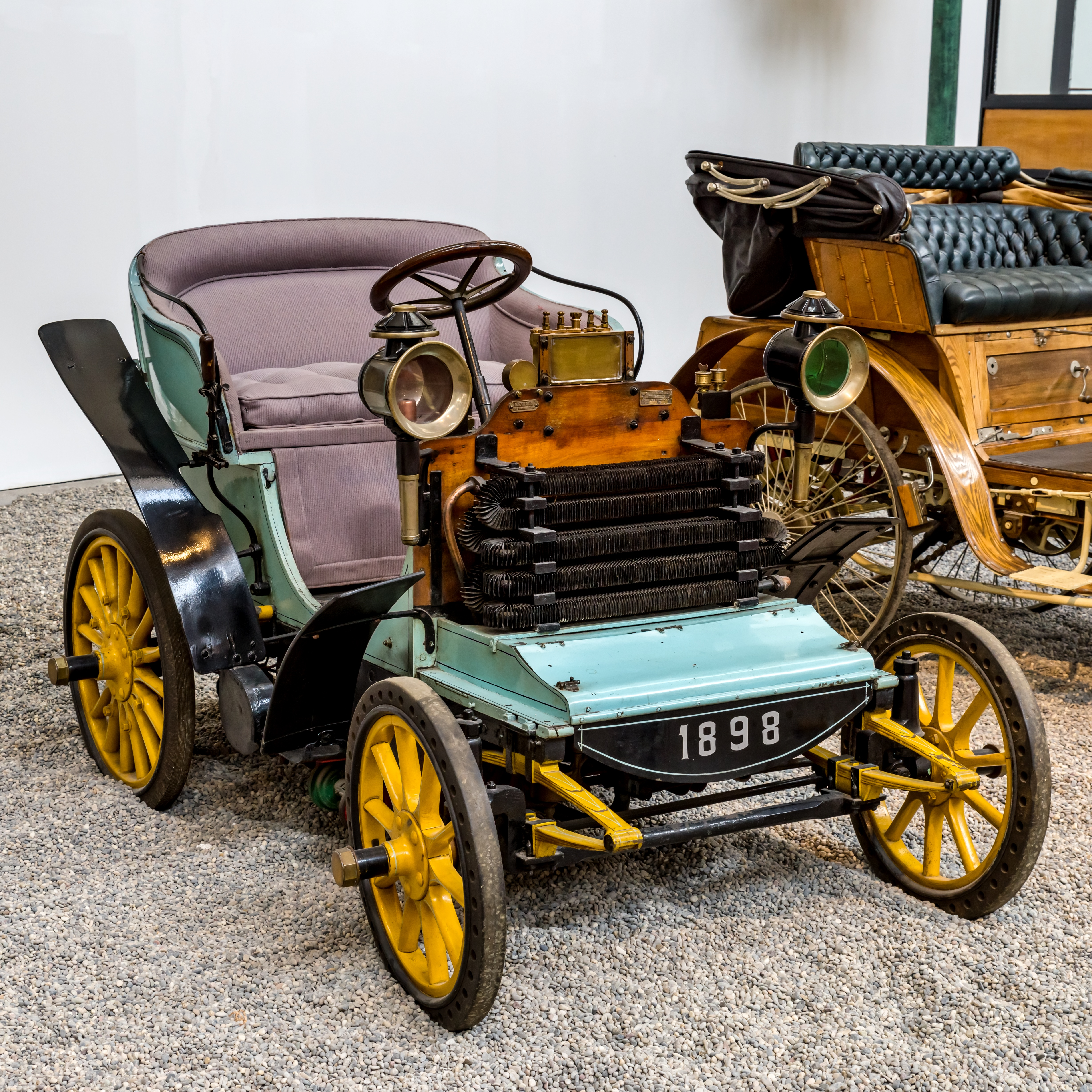 pictures from the Cité de l’Automobile – Musée National – Collection Schlump in Mulhouse, France ptictures from the 10. may 2018